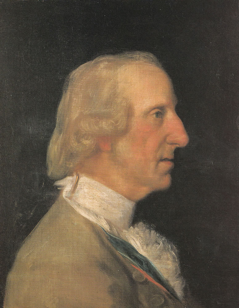 Portrait of the Infante Luis, Count of Chinchón (1727-1785)